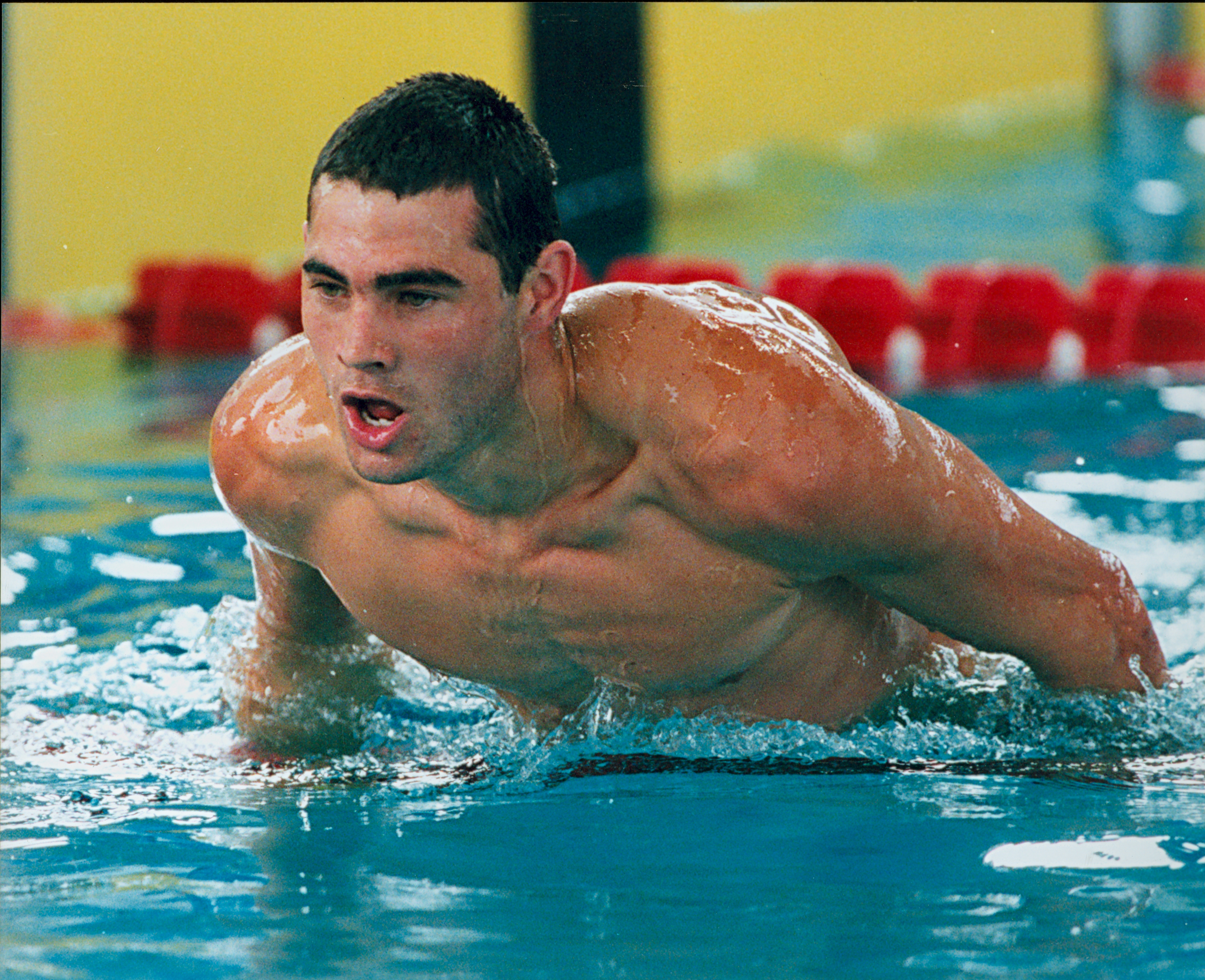 An unidentified male Australian swimmer at the Atlanta 1996 Paralympic Games